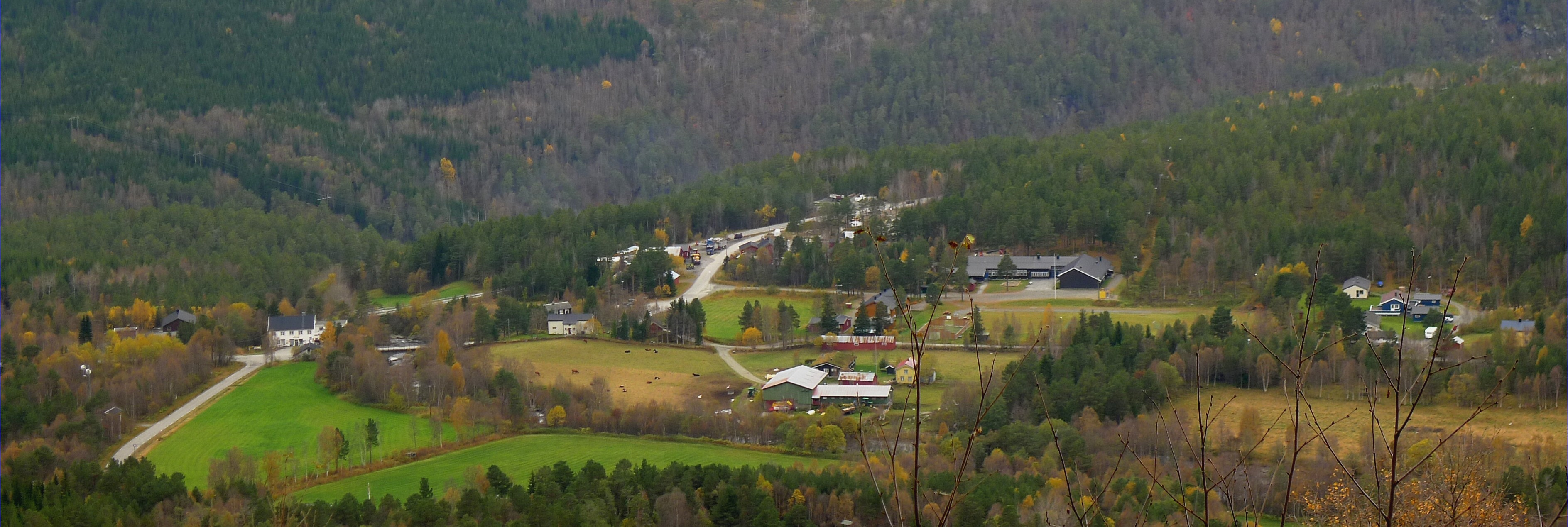 Wiew of Lønset from Lønsetlia